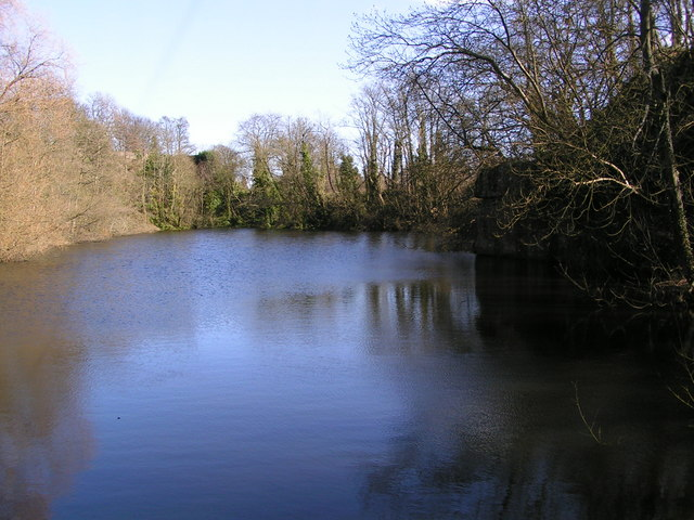 Kingoodie Quarry. This is where the Kingoodie hammer was found - an Out of place artifact